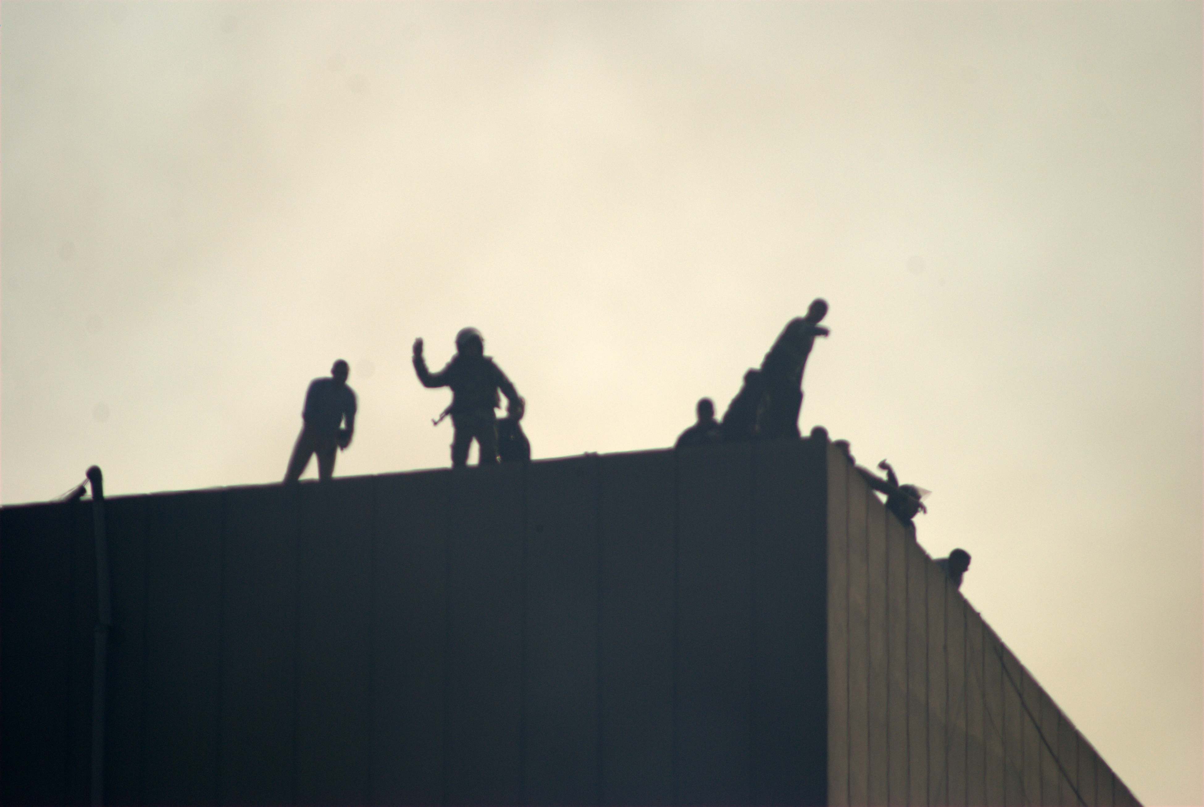 Photograph taken during the 'Cabinet clashes'.